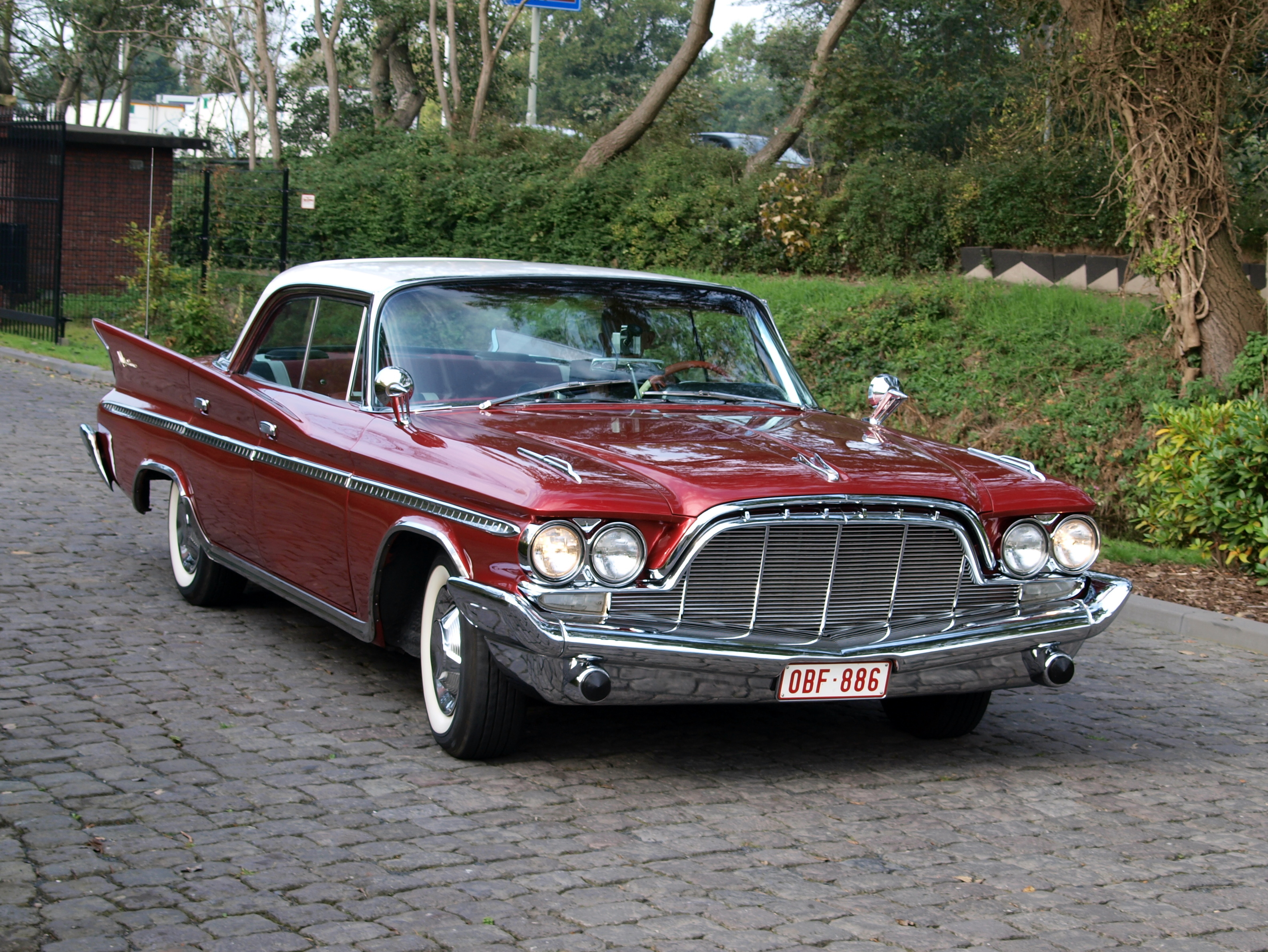 Photographed at the premmesis of the Louwman museum, The Hague, The Netherlands. OLYMPUS DIGITAL CAMERA